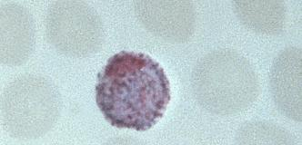 This Giemsa stained slide reveals a Plasmodium ovale gametocyte. The male (microgametocytes) and female (macrogametocytes), are ingested by an Anopheles mosquito during its blood meal. Known as the sporogonic cycle, while in the mosquito's stomach, the microgametes penetrate the macrogametes generating zygotes.